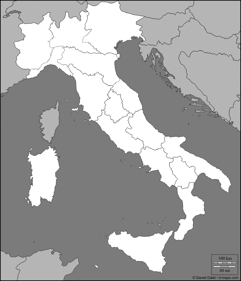 Map outline of 17 ecclesiastic regions of Italy